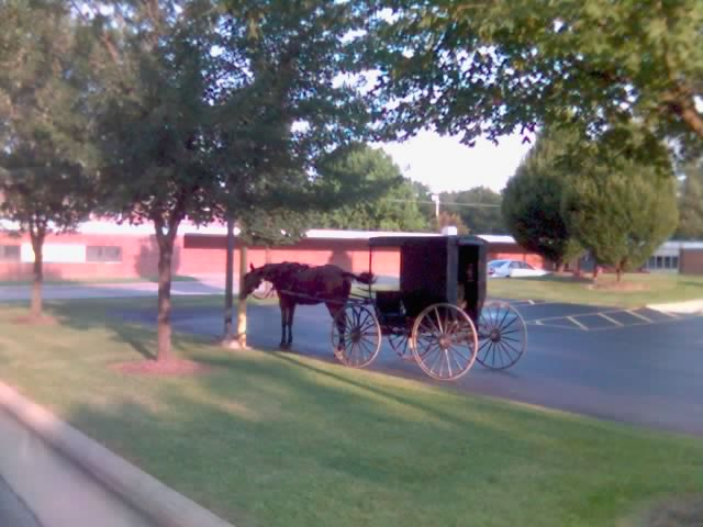 Amish visiting Village of Dalton, Ohio.